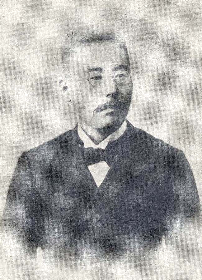 Yamaguchi Hidetaka 山口秀高